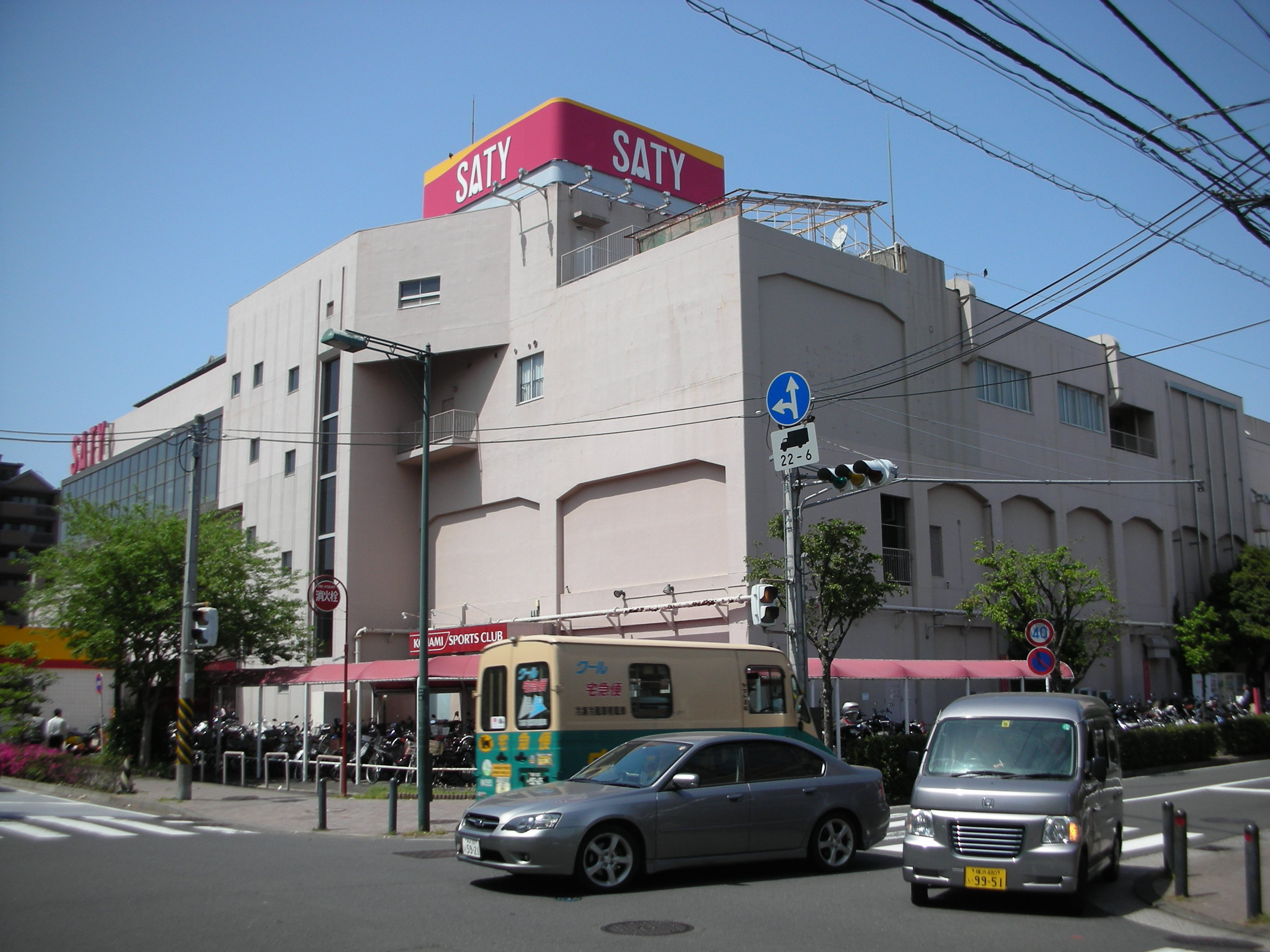 Tennouchou SATY